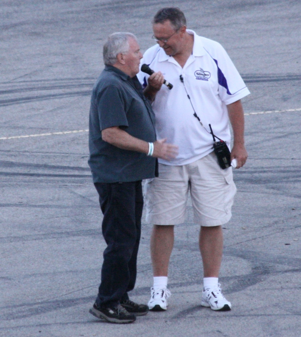 Retired NASCAR driver Dick Trickle (left) being interviewed by track announcer Todd Behling, as the Grand Marshall for the 2012 Slinger Nationals race.